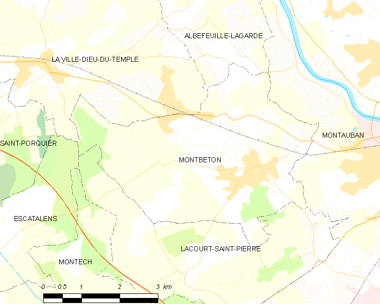 Map of French municipality Montbeton